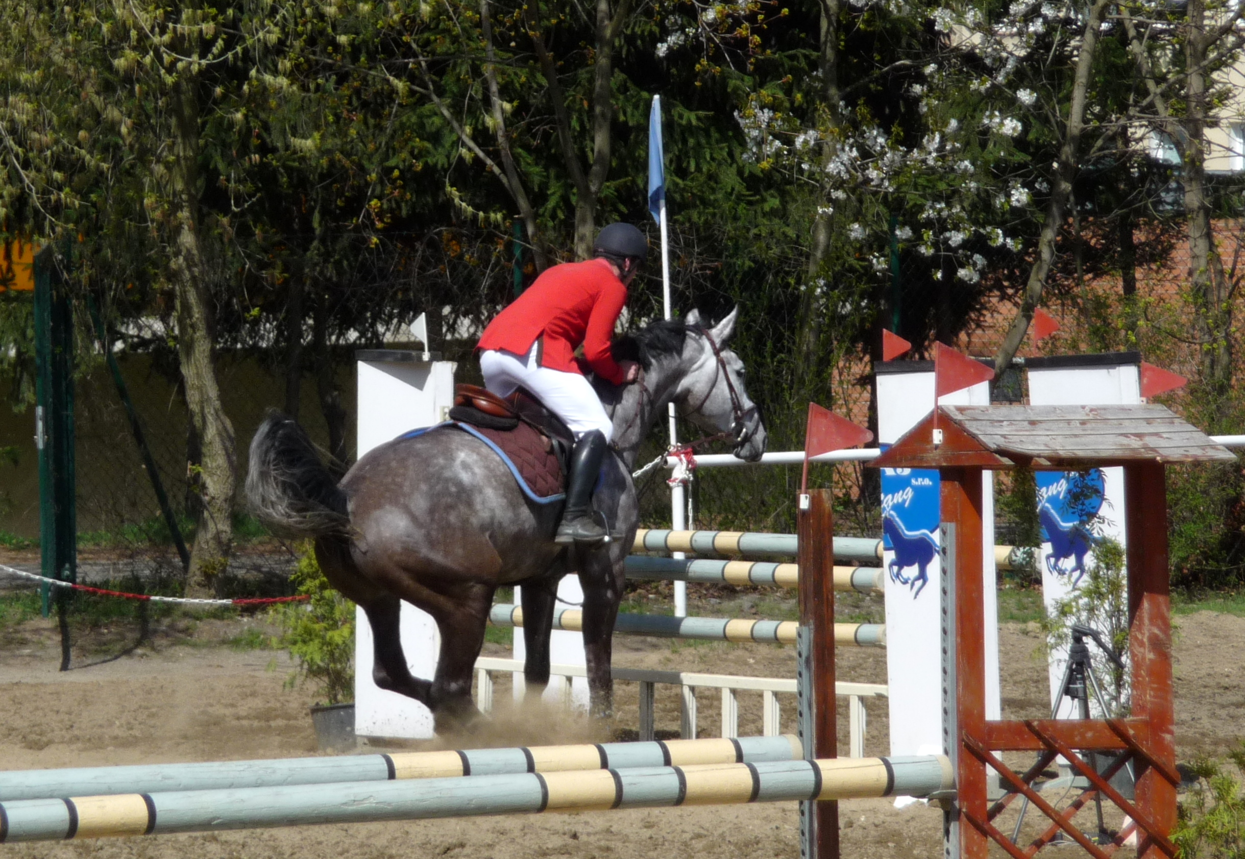 Show jumping Brno Veveří, class old L* -10-5-3-2◄►+2+3+5+10